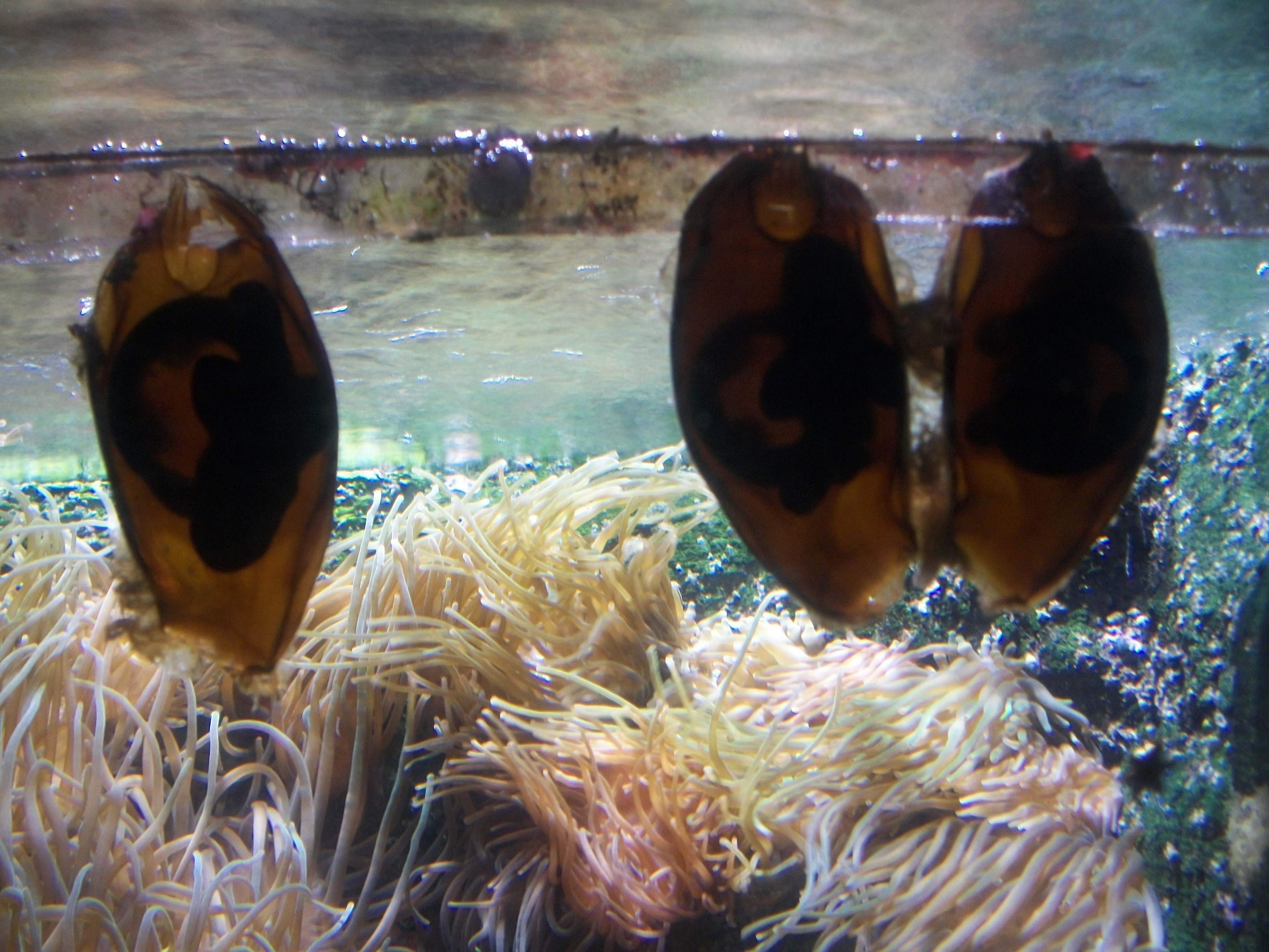 Shark eggs, some days to hours before eclosion. Photo taken in the Paris Aquarium ("Cinéaqua")